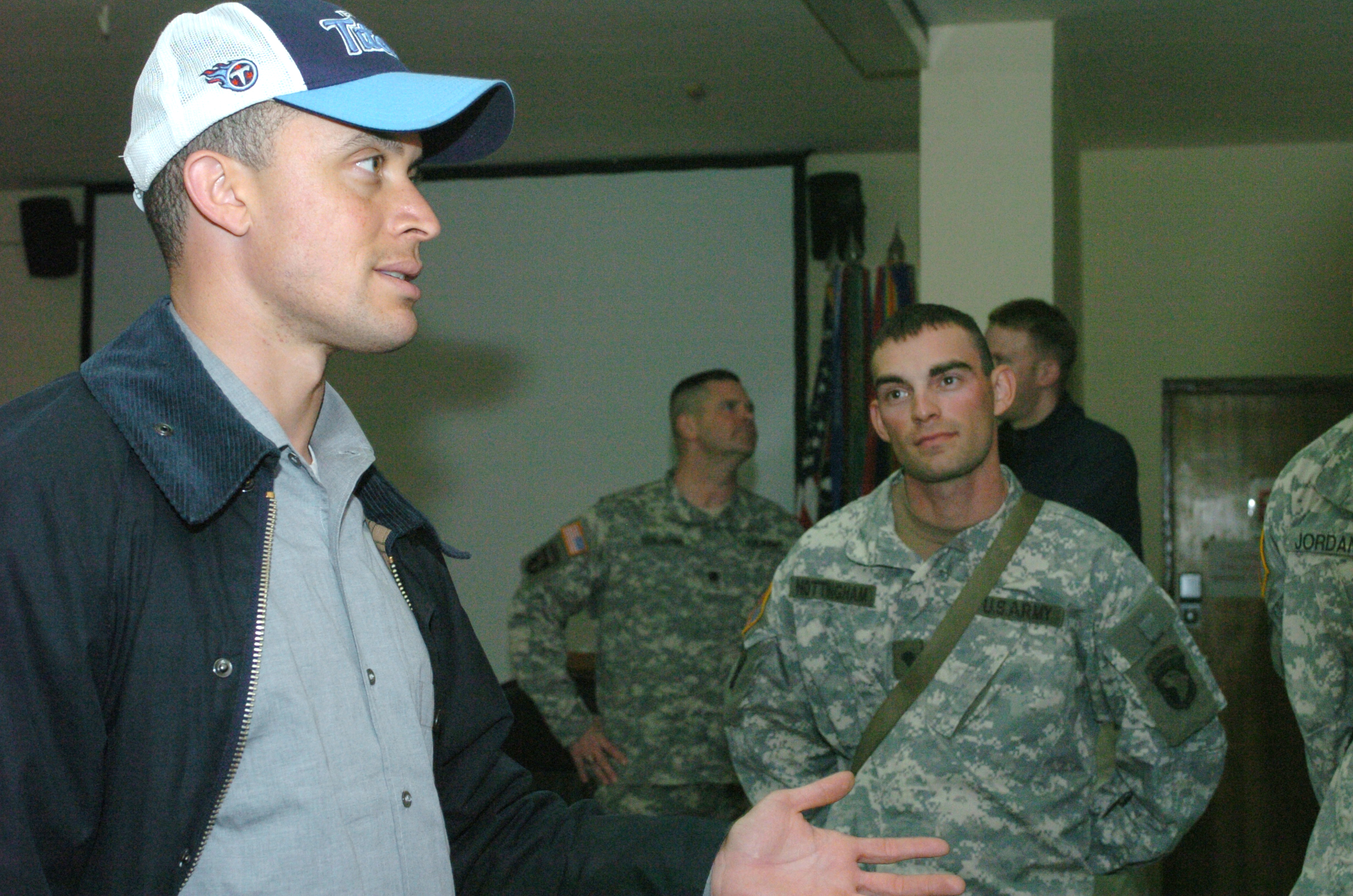 Congressman Harold Ford, Jr. of Tennessee talks with Soldiers stationed in Kirkuk, Iraq.